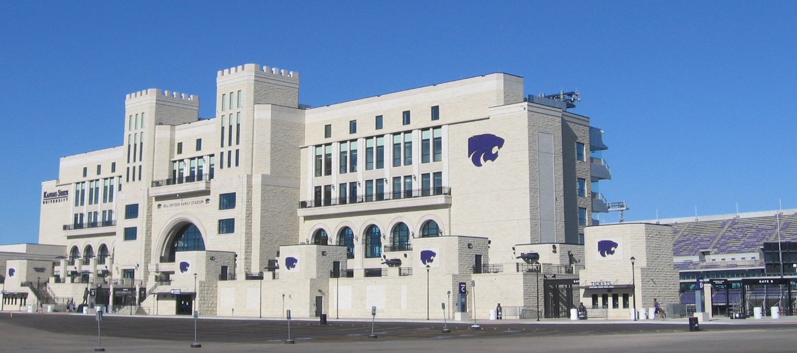 Snyder Stadium on the KSU campus in Manhattan, Kansas